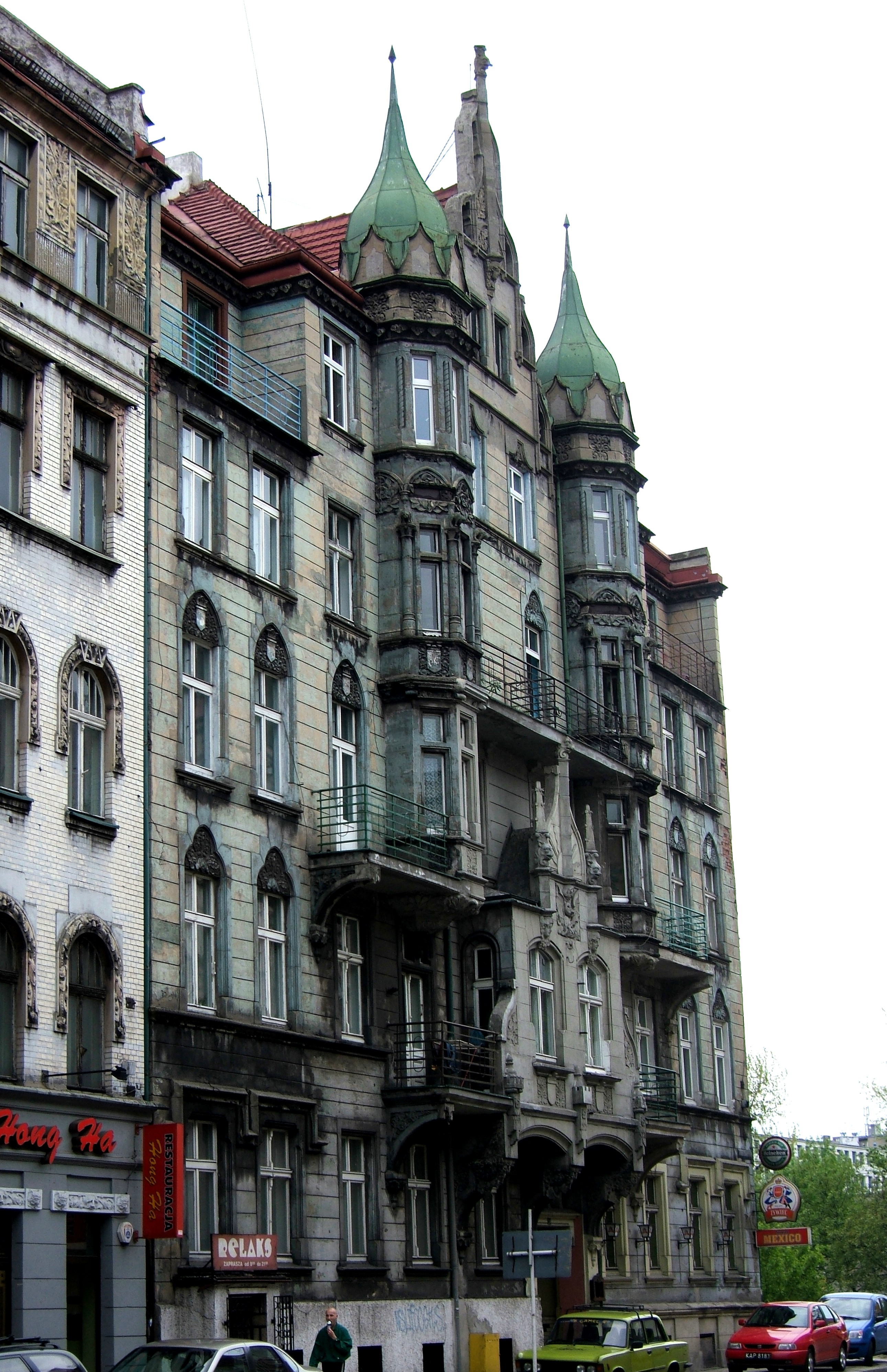 Art Nouveau building with neogothic elements at the ul. Słowackiego 24 in Katowice. It was erected in 1904, basing on plans of Paul Frantzioch.